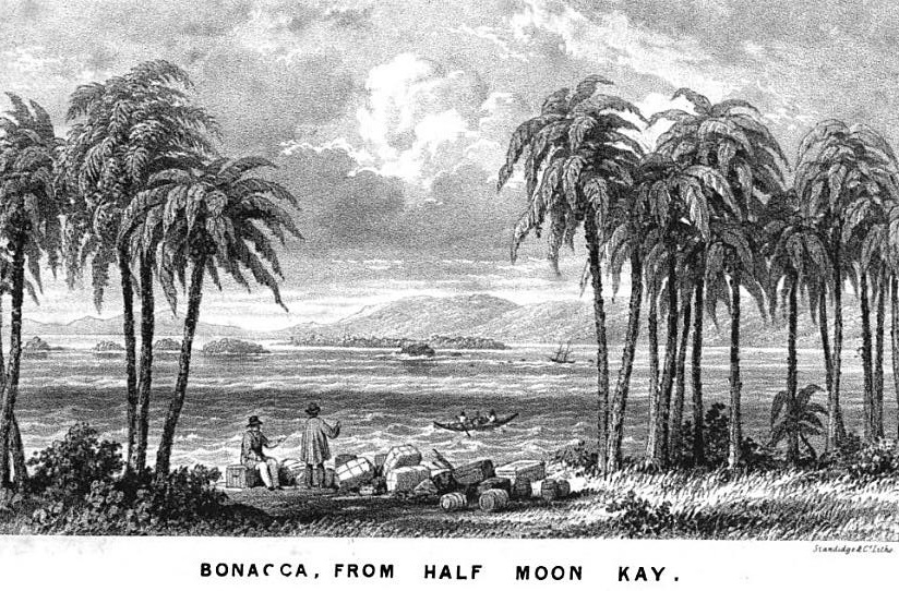 Print from c. 1842 showing a view of Bonacca Island, better known today as Guanaja Island, one of the Bay Islands (Honduras). Appeared in Thomas Young's book about his travels to the Mosquito Coast, Trujillo, Roatan and Bonacca in 1839, 1840 and 1841.